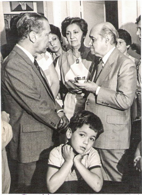 Governador Ney Braga e Presidente Tancredo Neves